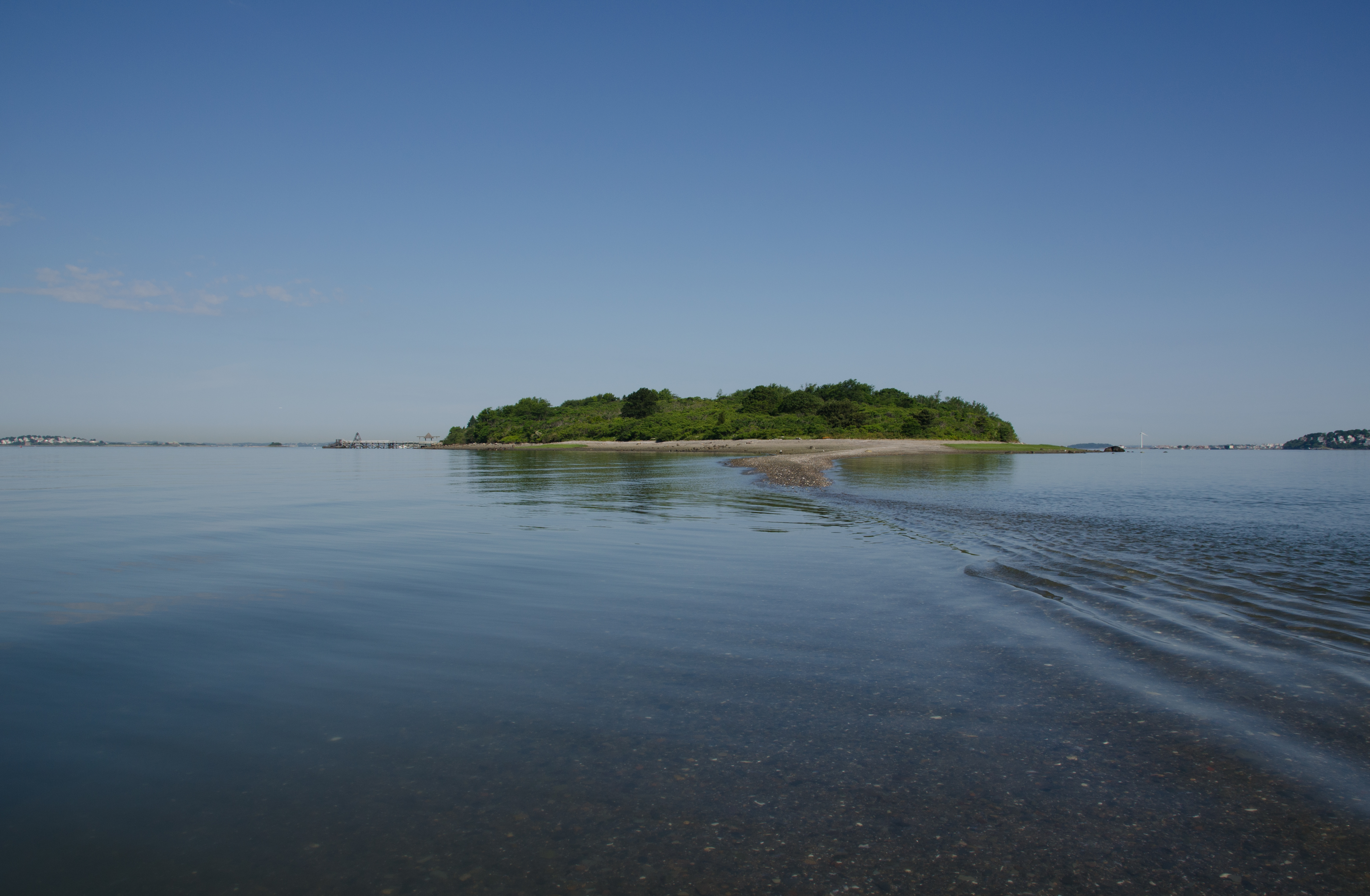 Bumpkin Island, one of Boston's Harbor Islands, seen near low tide from the sand spit which connects it to Sunset Point in Hull.